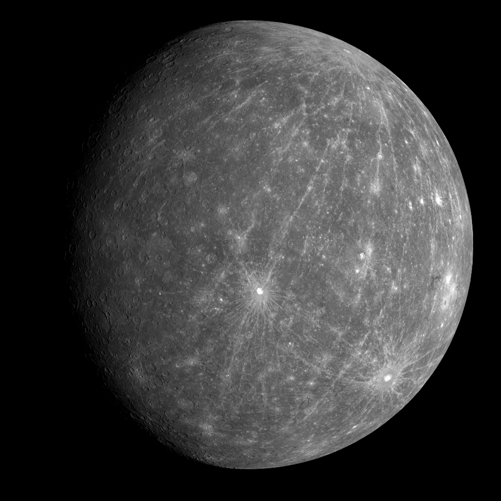 Yesterday [October 6, 2008], at 4:40 am EDT, MESSENGER successfully completed its second flyby of Mercury. Today, at about 1:50 am EDT, the images taken during the flyby encounter began to be received back on Earth. The spectacular image shown here is one of the first to be returned and shows a WAC image of the departing planet taken about 90 minutes after the spacecraft’s closest approach to Mercury. The bright crater just south of the center of the image is Kuiper, identified on images from the Mariner 10 mission in the 1970s. For most of the terrain east of Kuiper, toward the limb (edge) of the planet, the departing images are the first spacecraft views of that portion of Mercury’s surface. A striking characteristic of this newly imaged area is the large pattern of rays that extend from the northern region of Mercury to regions south of Kuiper. This extensive ray system appears to emanate from a relatively young crater newly imaged by MESSENGER, providing a view of the planet distinctly unique from that obtained during MESSENGER’s first flyby. This young, extensively rayed crater, along with the prominent rayed crater to the southeast of Kuiper, near the limb of the planet, were both seen in Earth-based radar images of Mercury but not previously imaged by spacecraft. As the MESSENGER team is busy examining this newly obtained view that is only a few hours old, data from the flyby continue to stream down to Earth, including higher resolution close-up images of this previously unseen terrain.